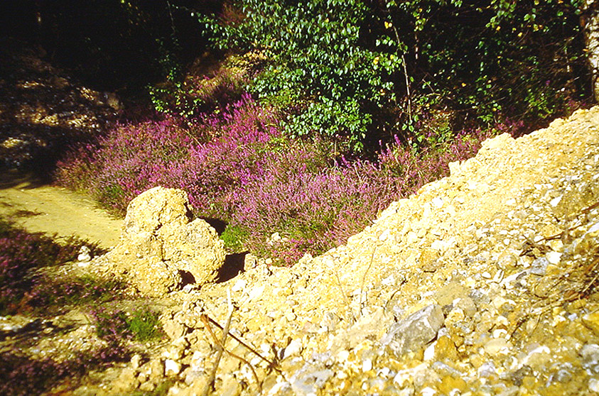 Site of Colonne d'Helfaut, Near Helfaut, Pas de Calais, north of france)